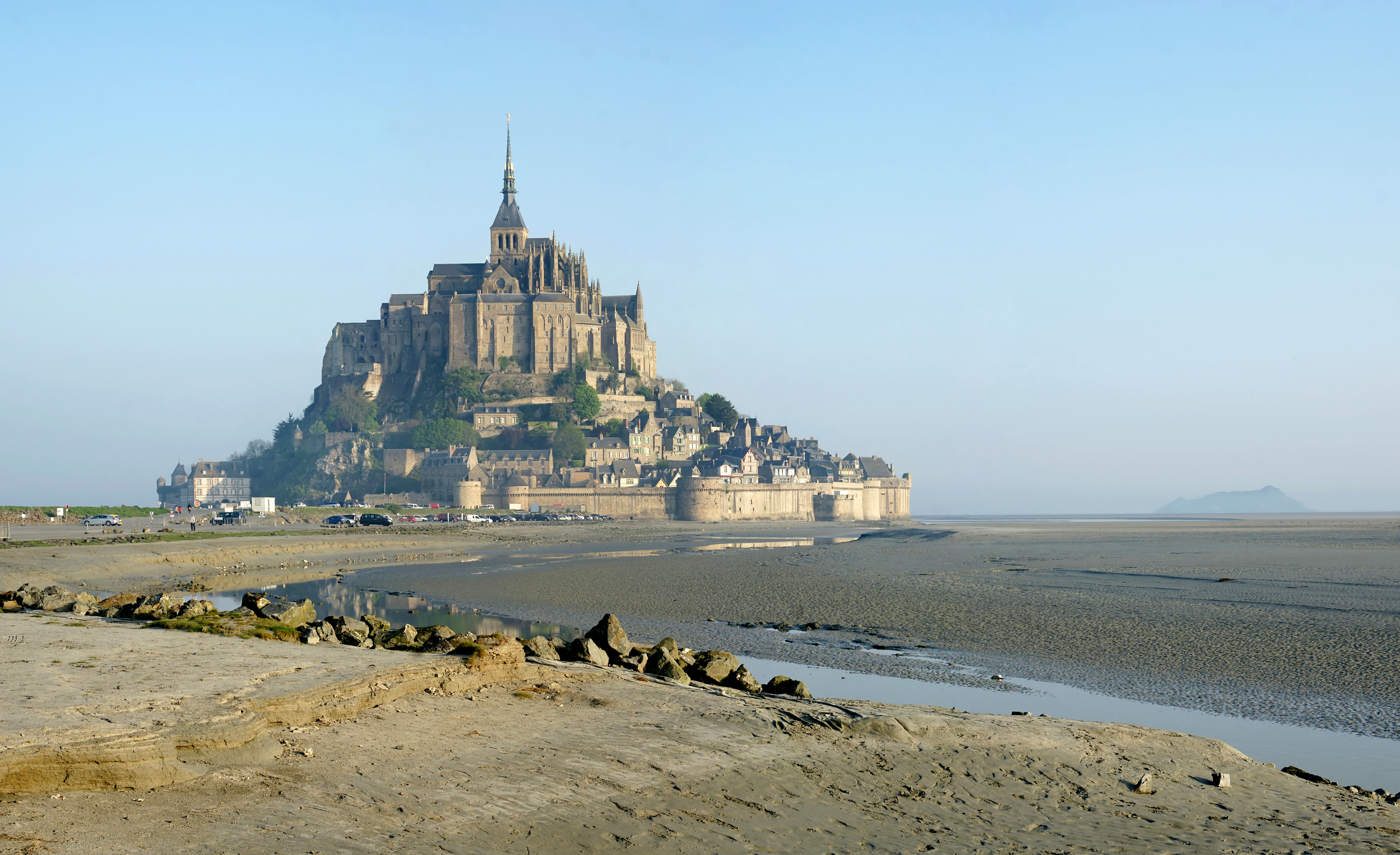 Le Mont Saint-Michel (Normandy), France.